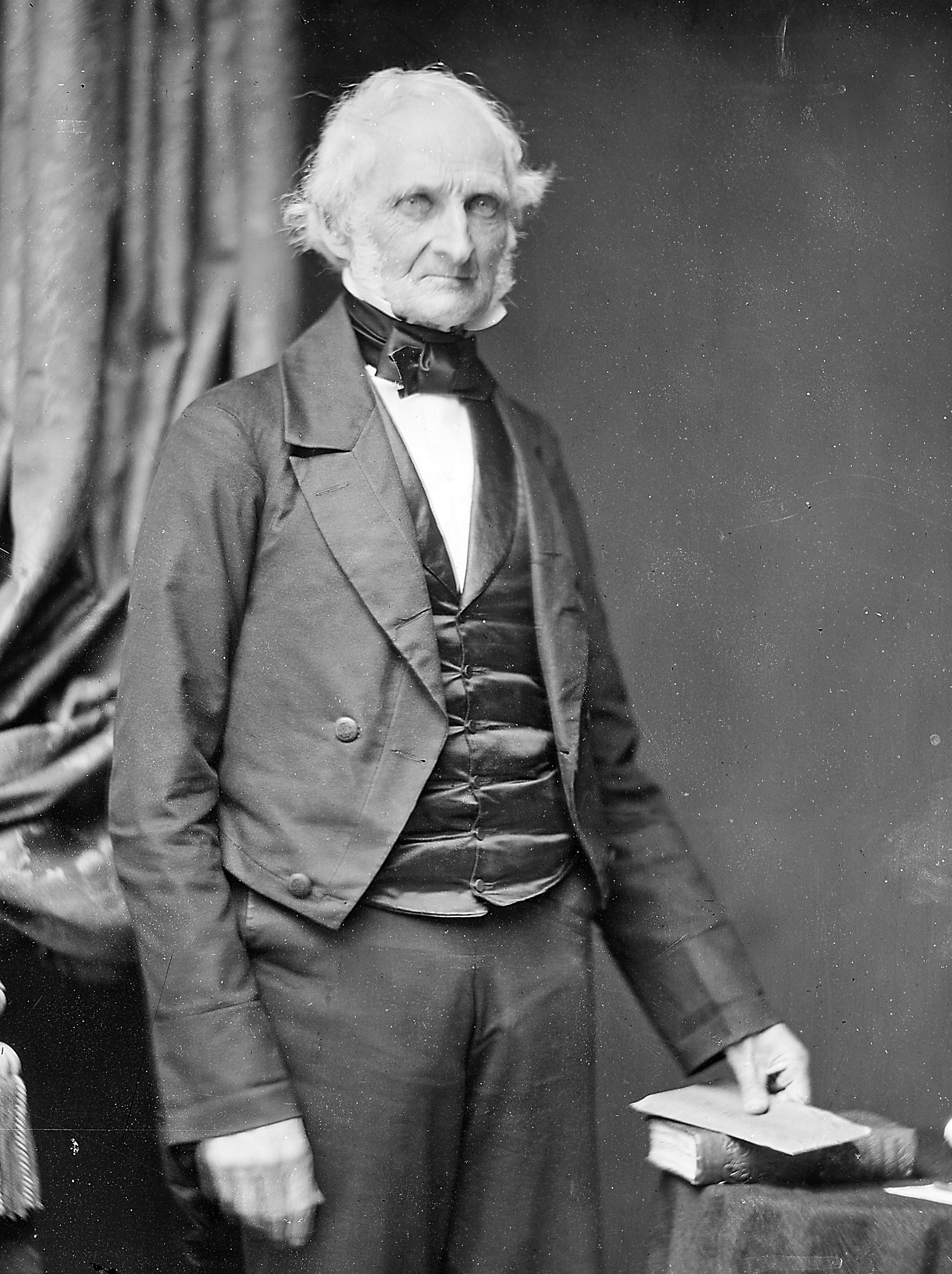 Photo of Amos Kendall by Matthew Brady (coded: B-4552) in the National archives.